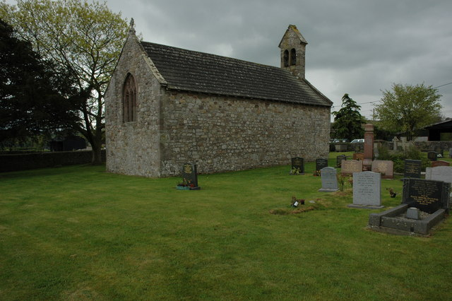 All Saints church, Kemeys Commander. The small All Saints church, Kemeys Commander, viewed from the north-east.